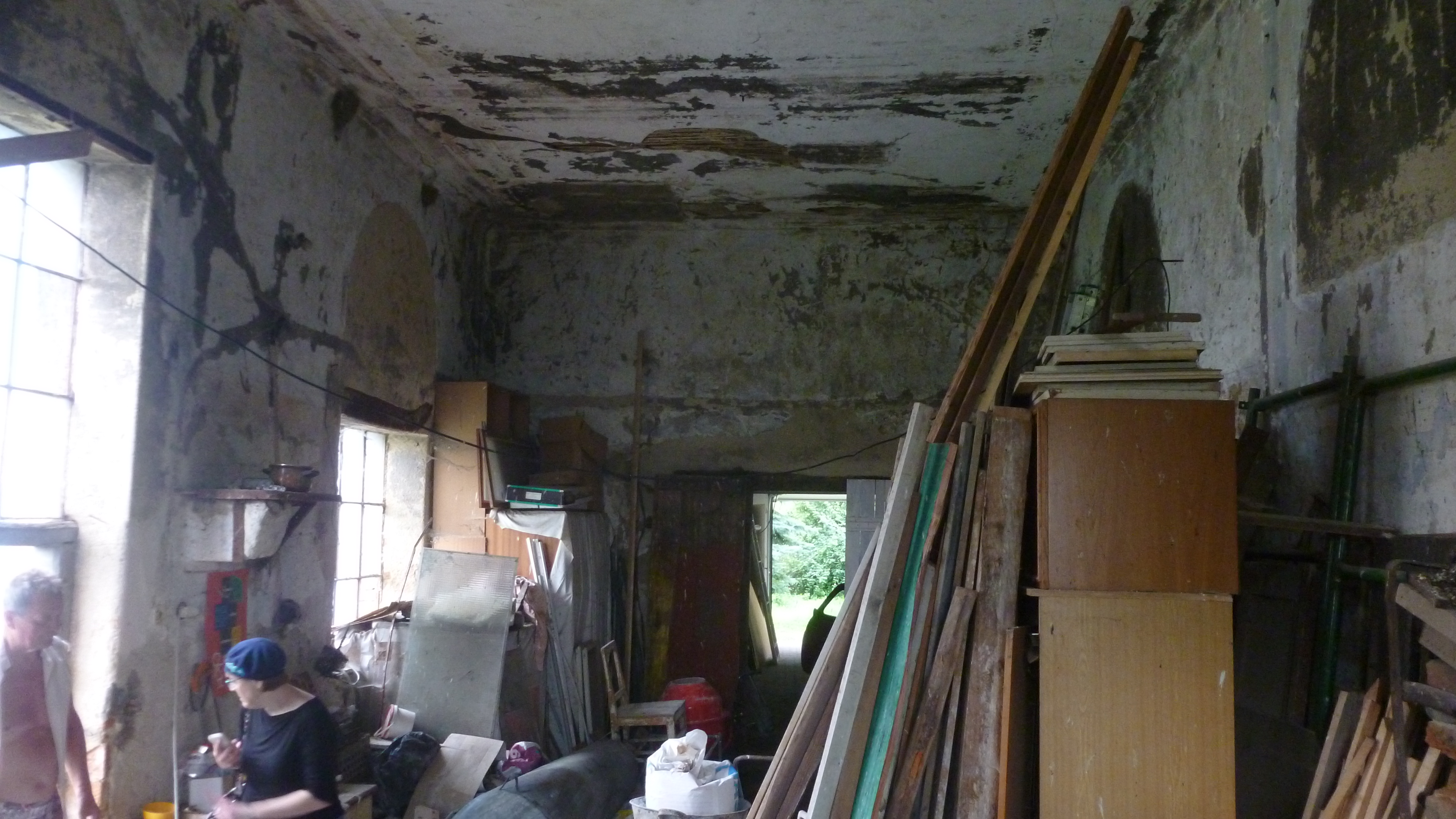 Interior of the former synagogue in the village of Zalužany, Central Bohemian Region, Czech Republic.